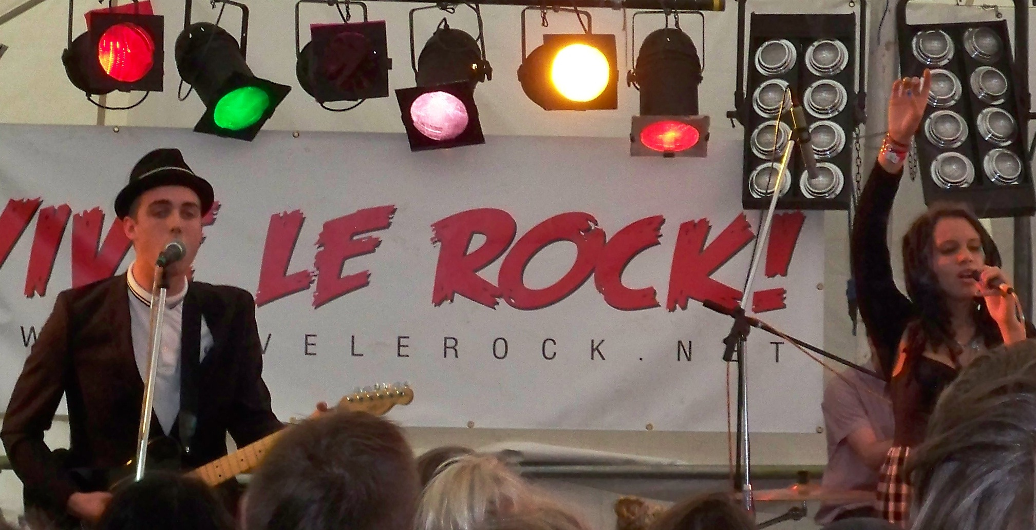 The Skints performing at Guilfest 2011.